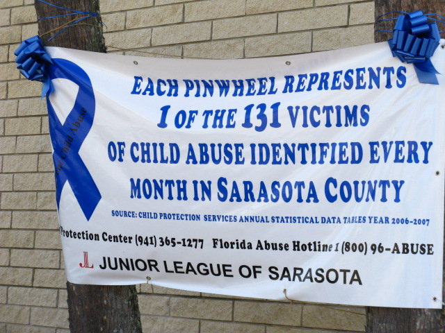 Child Abuse Awareness Banner